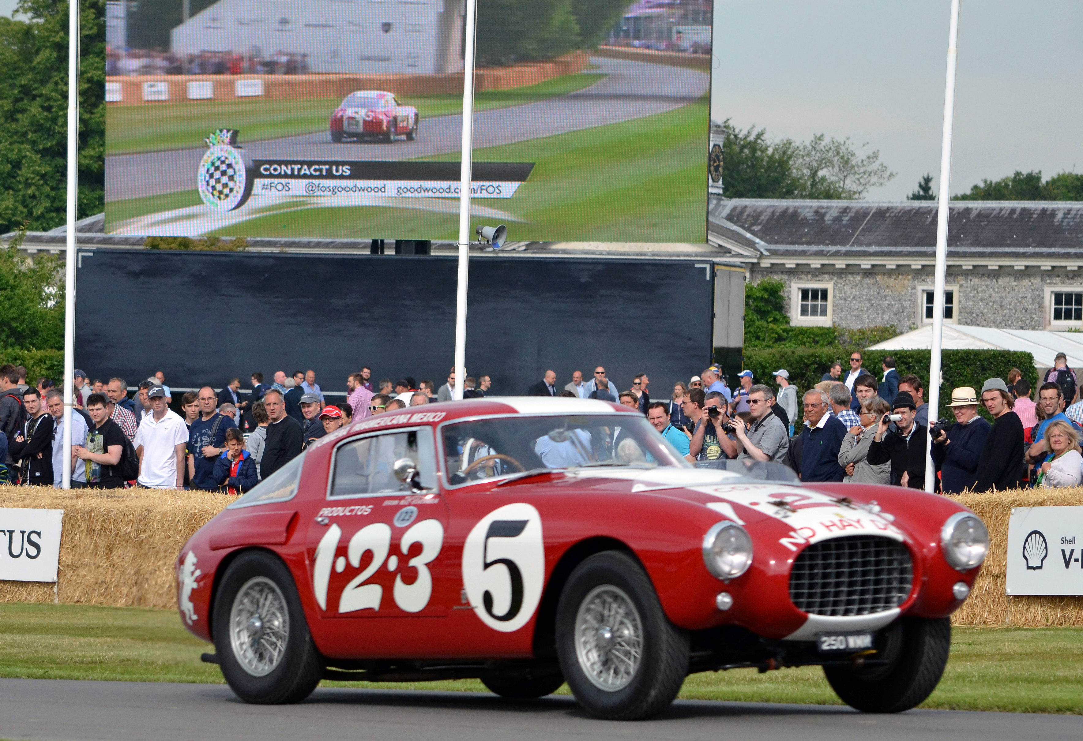 Goodwood Festival of Speed 2015